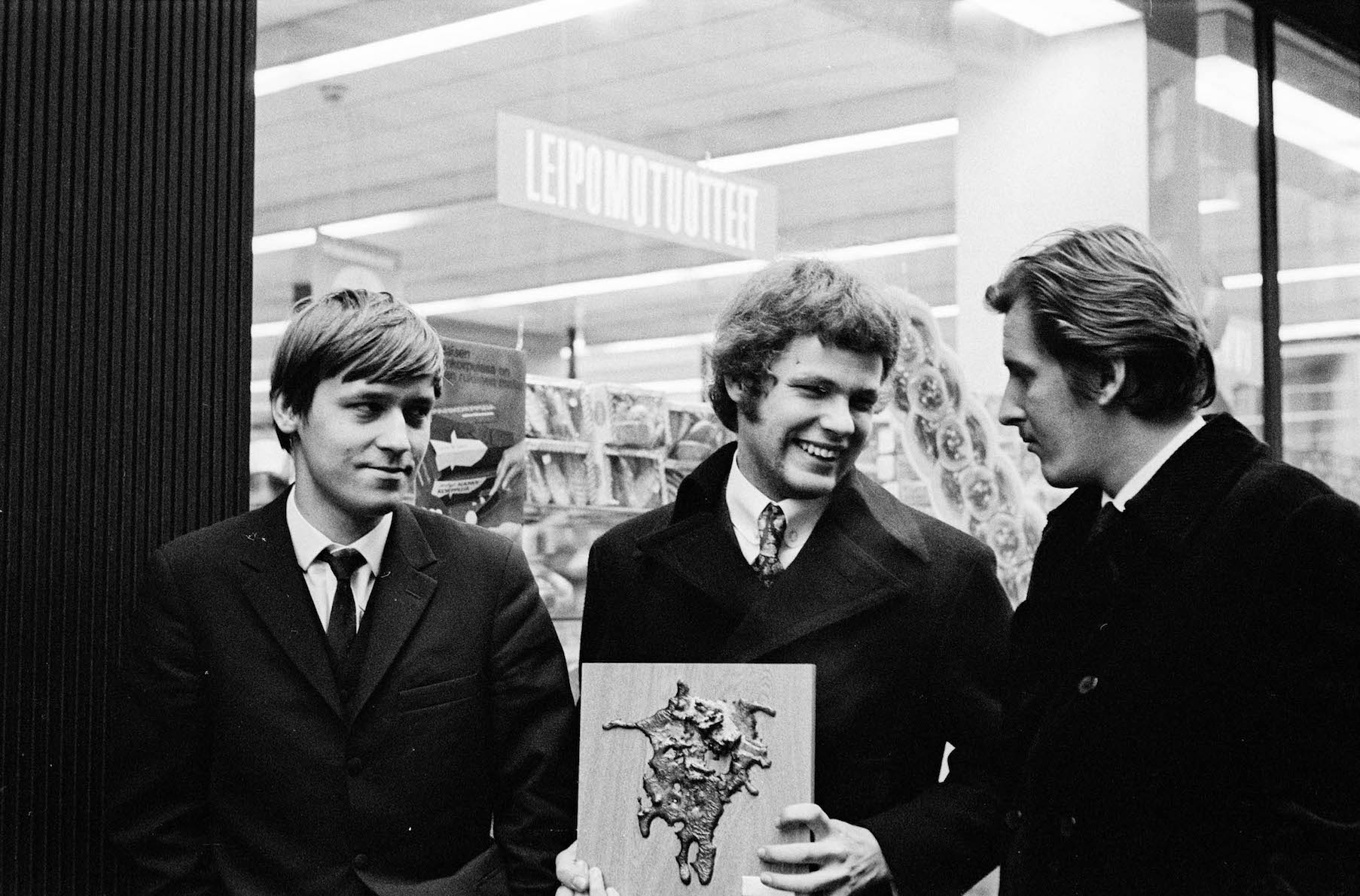 Photograph of the Finnish saxophonist Eero Koivistoinen (1946–), holding the first Yrjö Prize for jazz musicians. To his left, Pekka Sarmanto; to his right, Reino Laine.